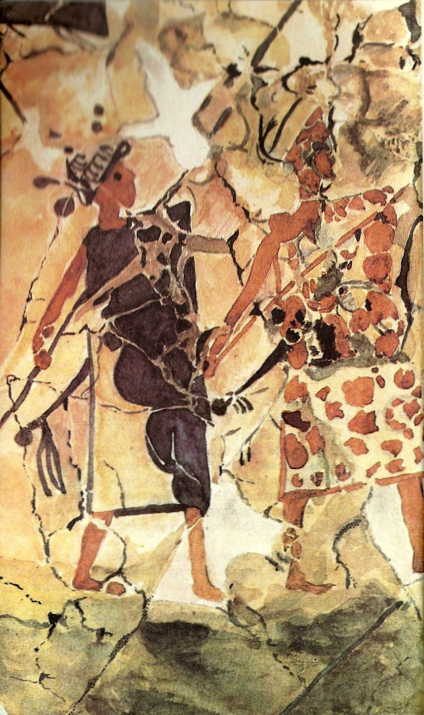 Cretan-Minoan warrier of late Bronze age, with leather-covered shield, lance and helmet (detail of the "Expedition frieze", found in the Western House of Akrotiri, 1972)